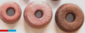 Slate spindle whorls from Volga Bulgaria; 9-13 centuries AD